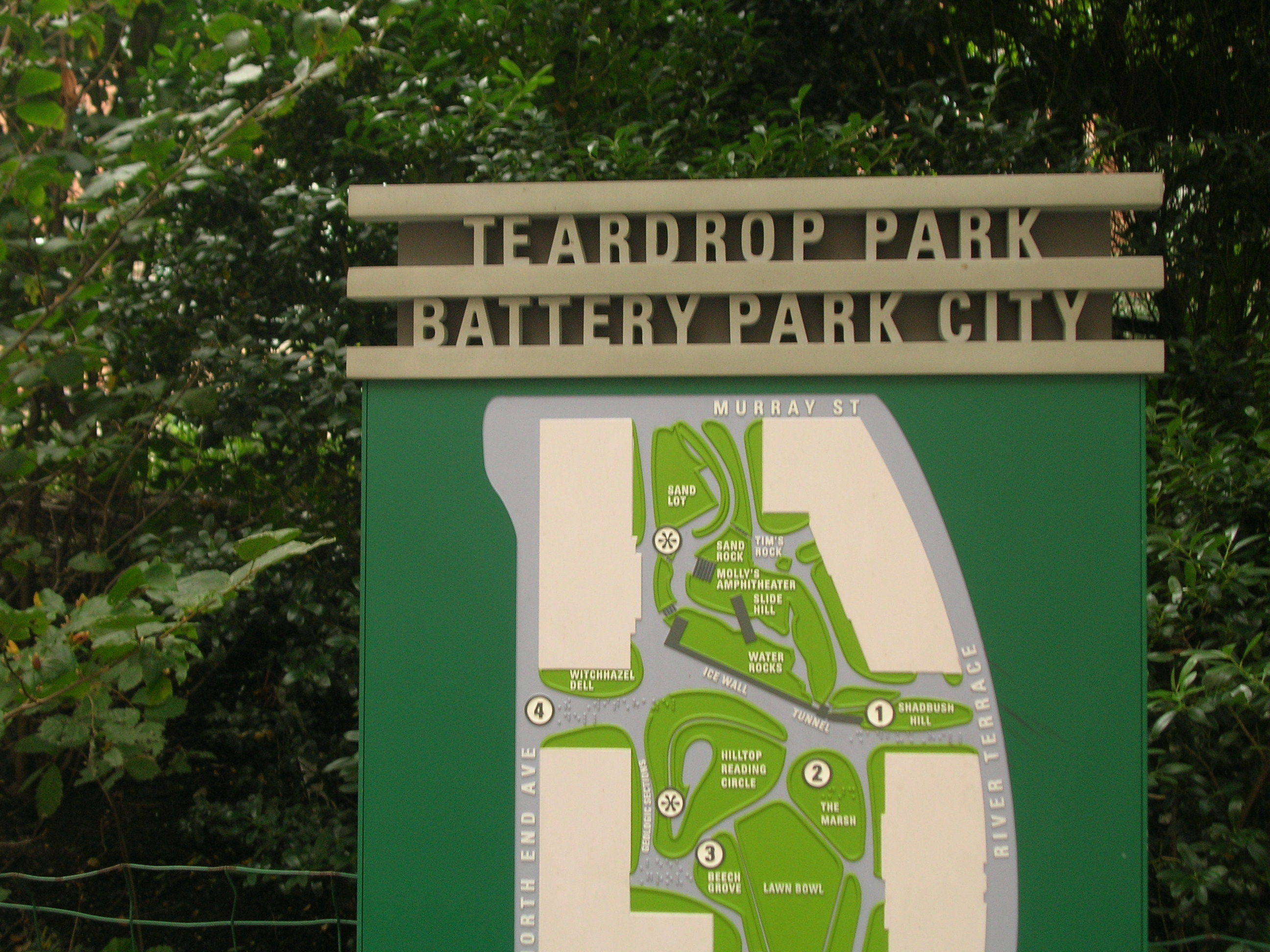 This photo is of Wikis Take Manhattan goal code H6, Teardrop Park.